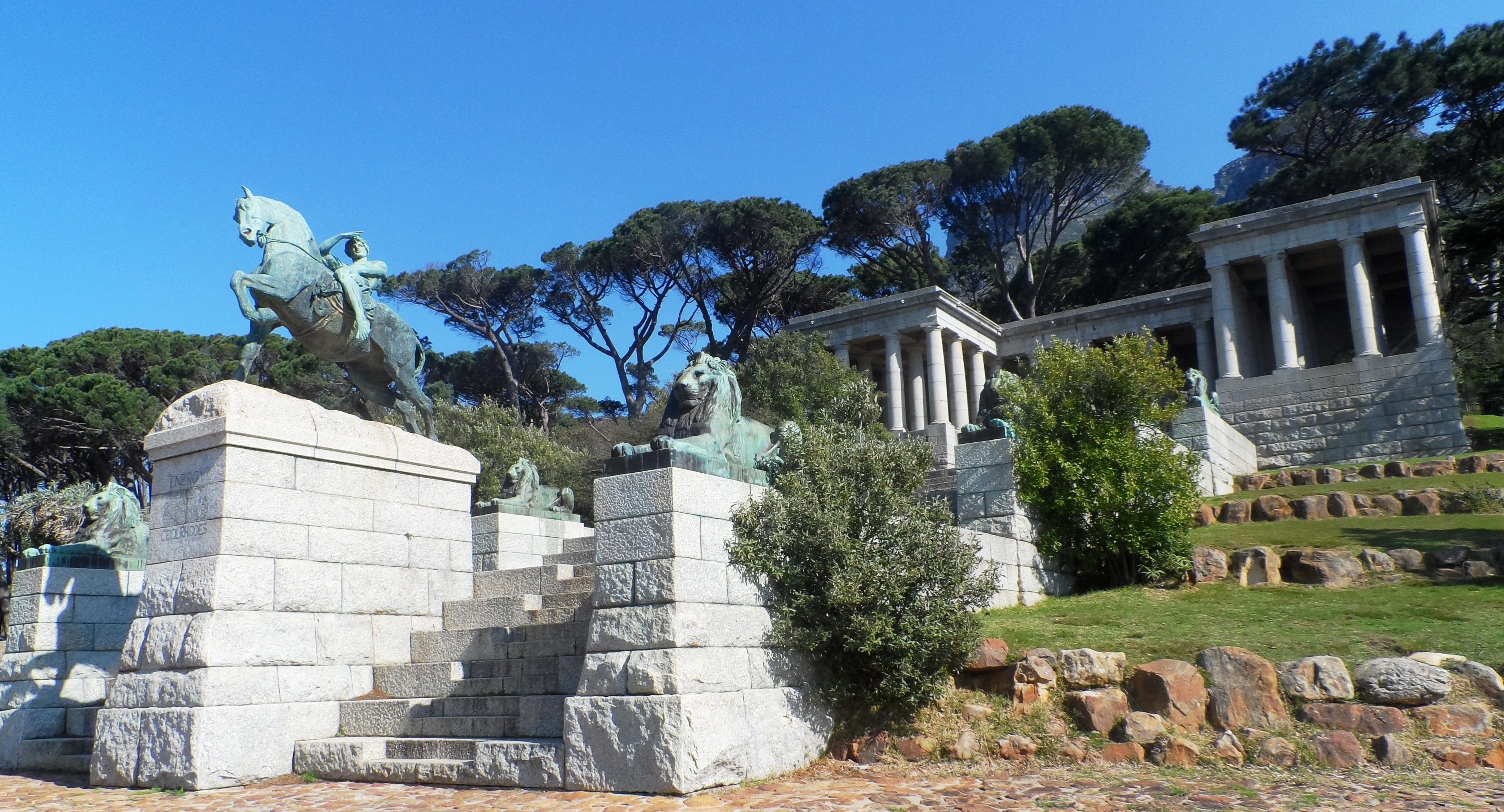 Cecil John Rhodes This media shows a South African Protected Site with SAHRA file reference 0000.